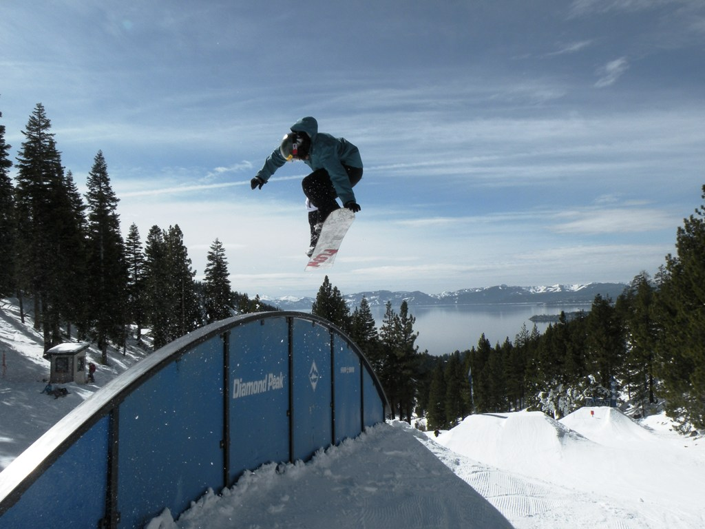 USCSA Regionals at Diamond Peak